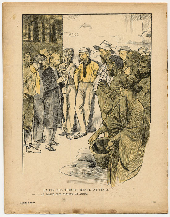 « La fin des trusts résultat final » by André Cahard, in L'Assiette au beurre issue 139, Novembre 23 1903.